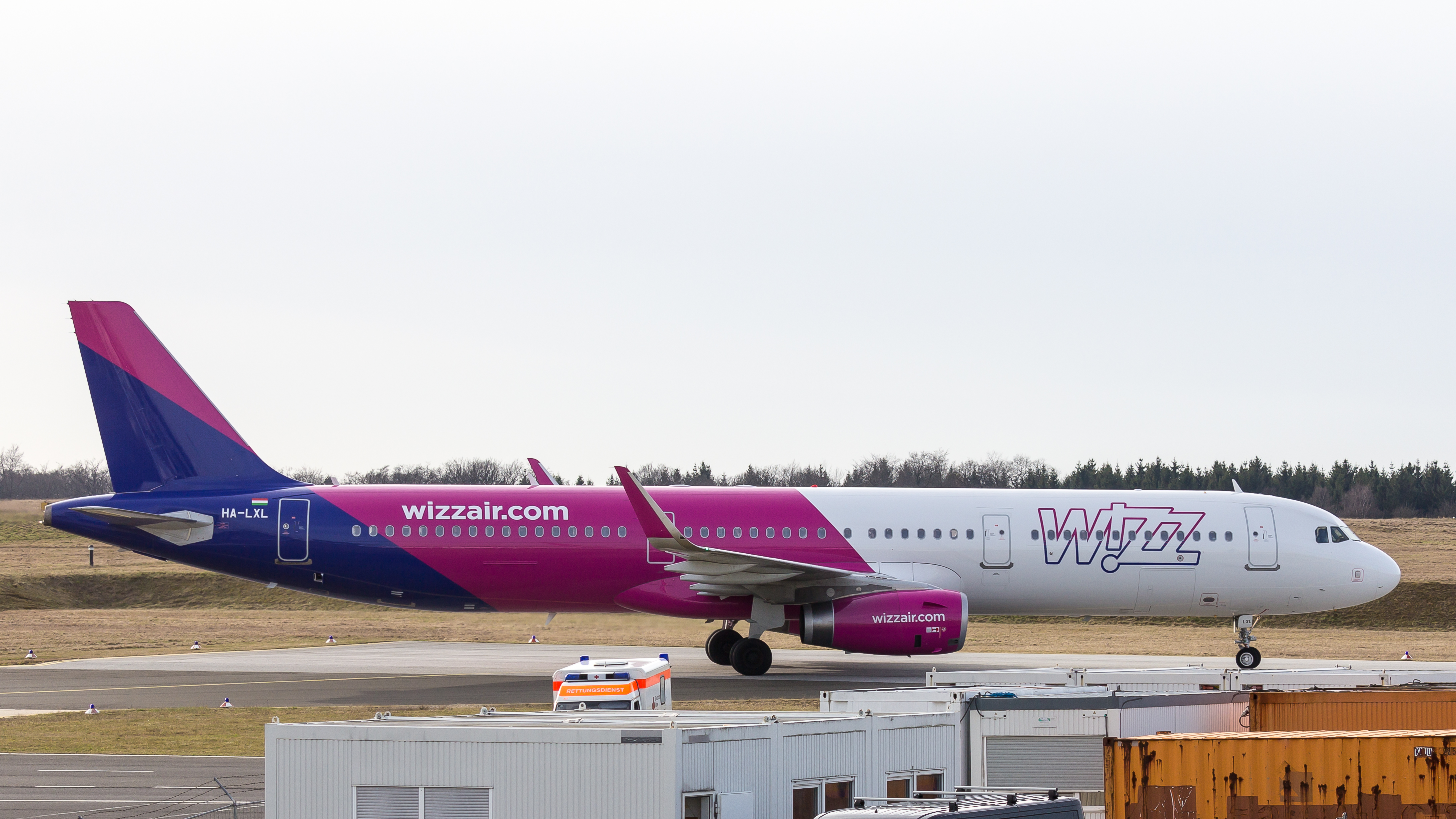 Wizzair - Airbus A321 - HA-LXL - Airport Frankfurt-Hahn